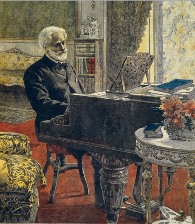 Achille Beltrame, Verdi at Santa'Agata on his 86th birthday, October 1899